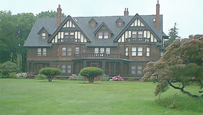 Front of the Harry E. Donnell House in Eatons Neck, NY. Now the Carr Bed and Breakfast (71 Locust Lane, Eatons Neck, New York, United States), the 1903 Mansion is on the National Register of Historic Places.